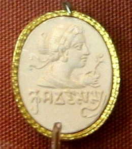 Punjab Carnelian Seal. Brahmi inscription "Kusumadasasya" ("Flowers servant"). 4-5th century CE, probably Punjab. British Museum. Personal photograph.